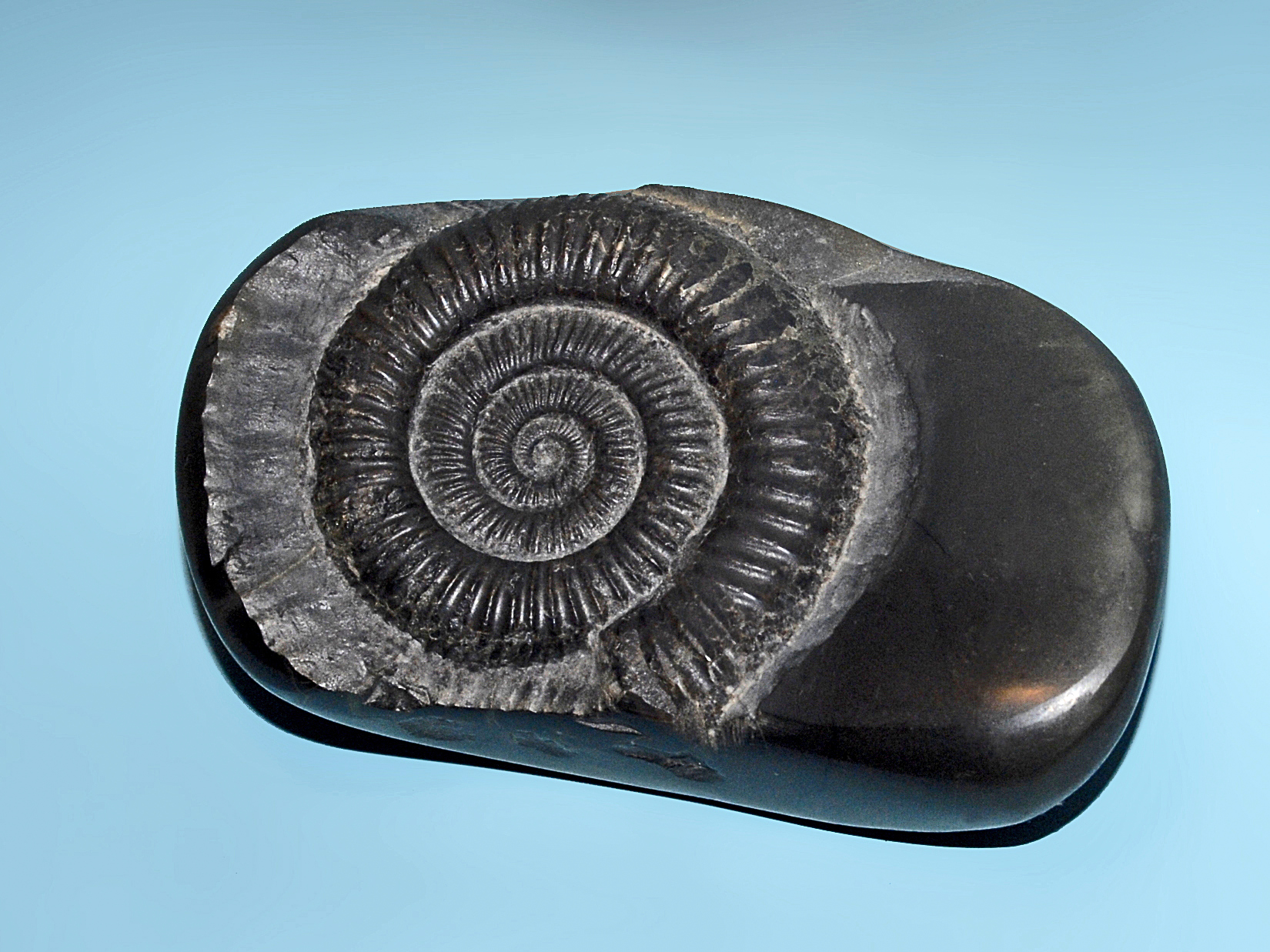 Dactylioceras commune from Yorkshire